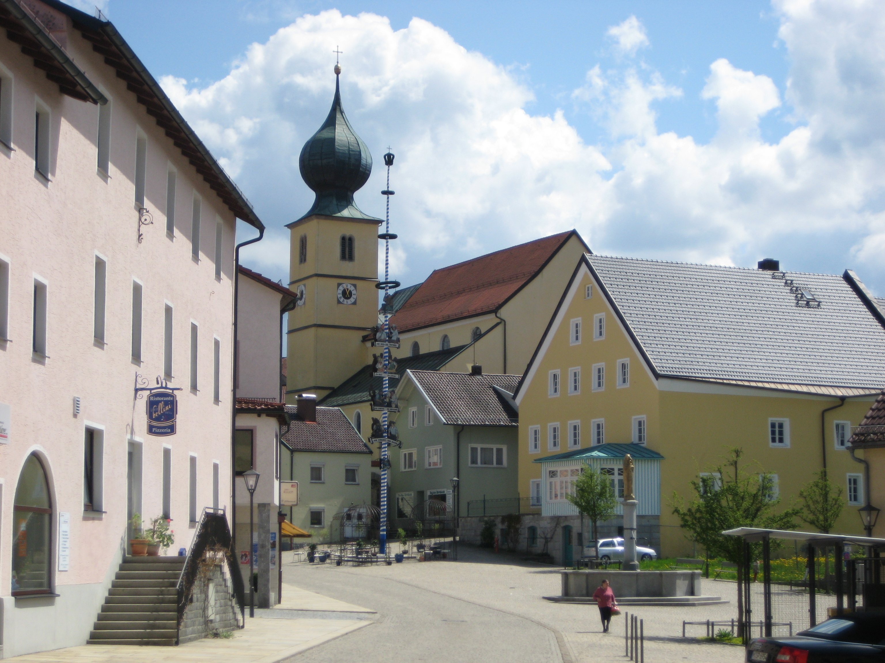 Town center of Ruhmannsfelden, Lower Bavaria